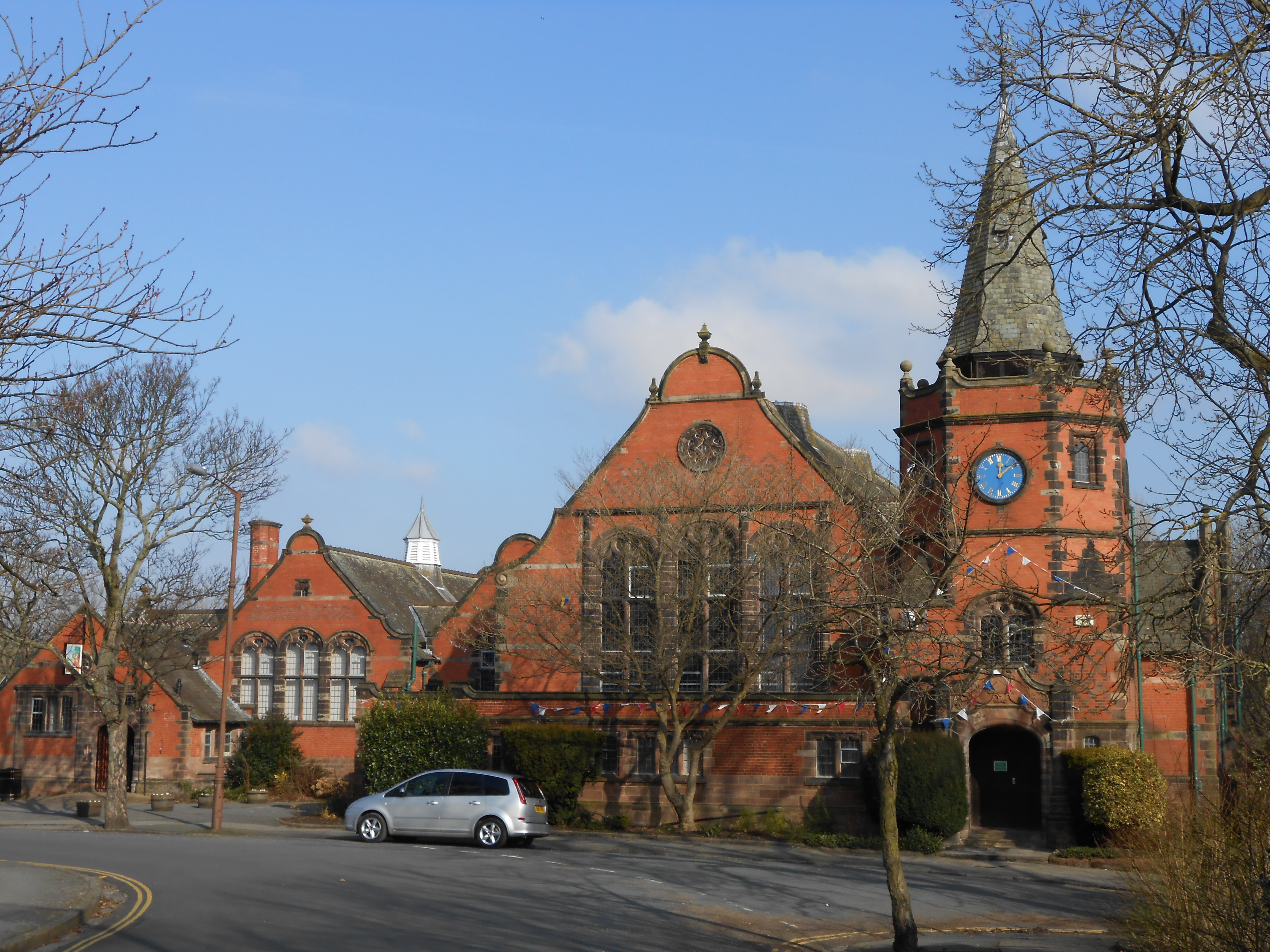 The Lyceum on Bridge Street, Port Sunlight, Merseyside, England.